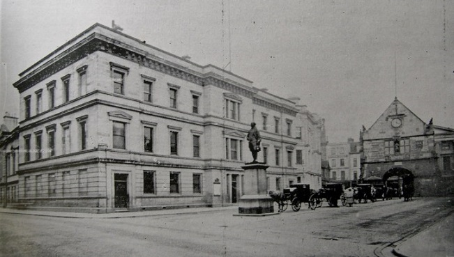 Photograph of the Old Shirehall in Shrewsbury